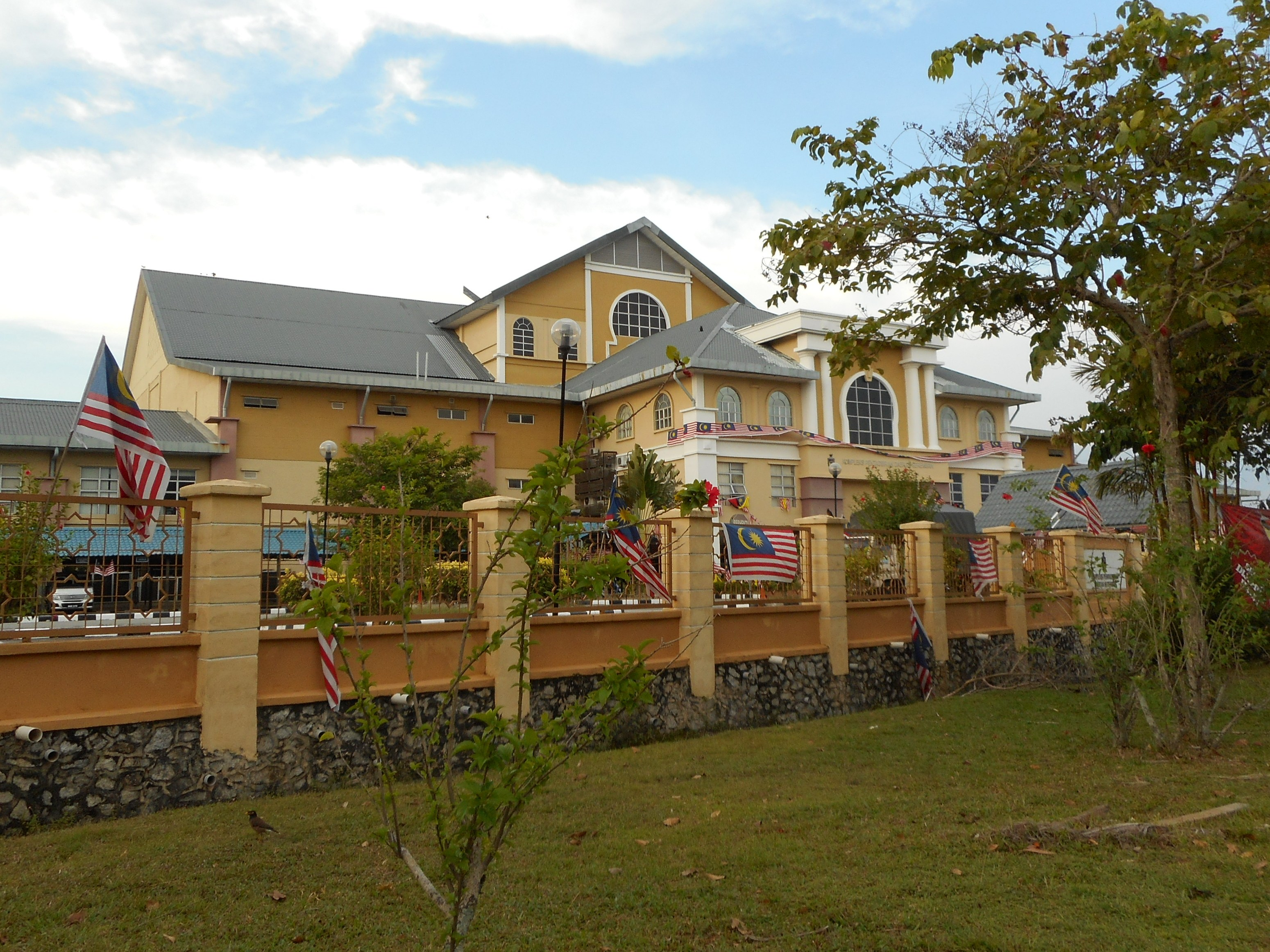 Seremban District Administration Complex, Seremban, Negeri Sembilan, Malaysia